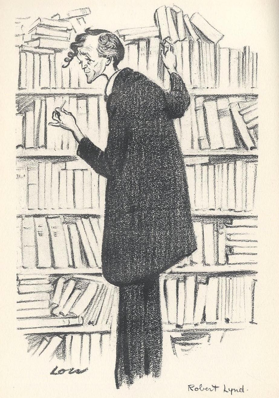 Caricature of Robert Wilson Lynd in Lions and Lambs.